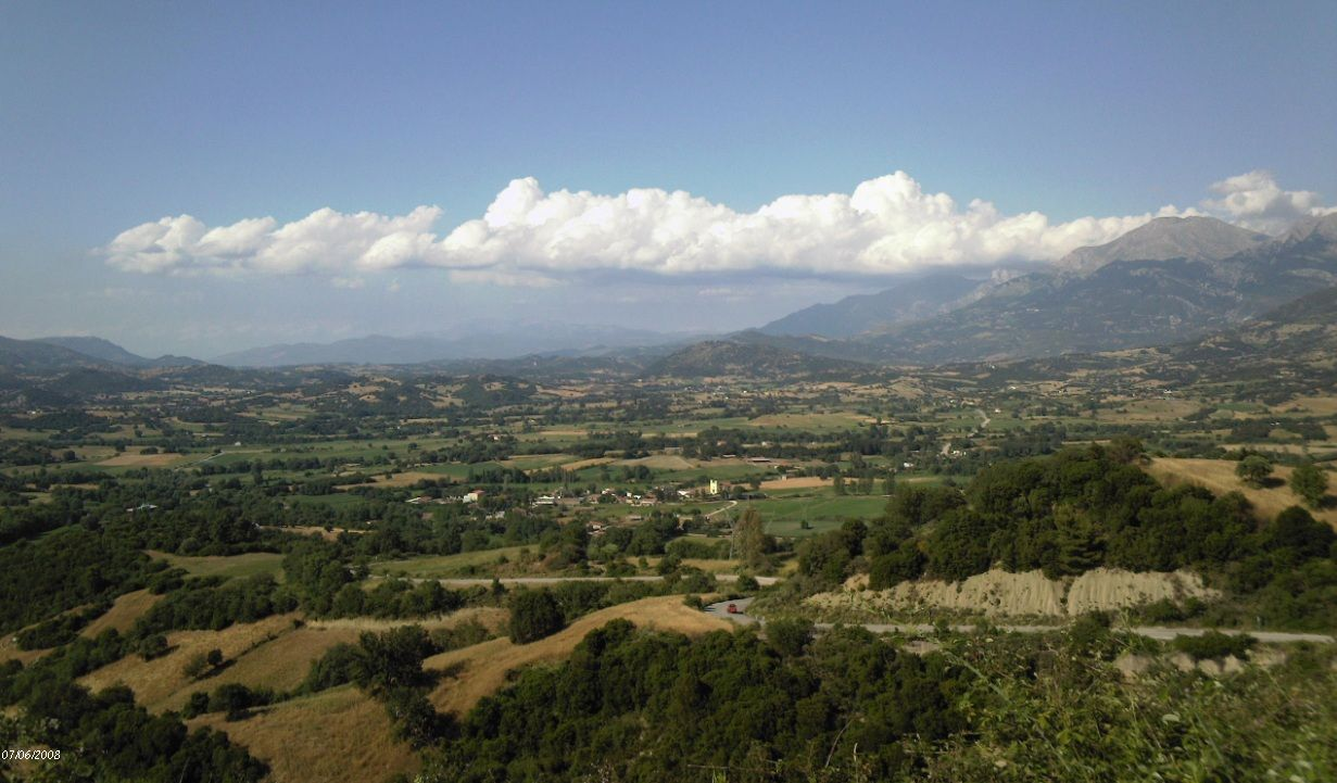 Karpeta village, Achaia, Greece. It stands in the southern part of Voudouhla Plain.